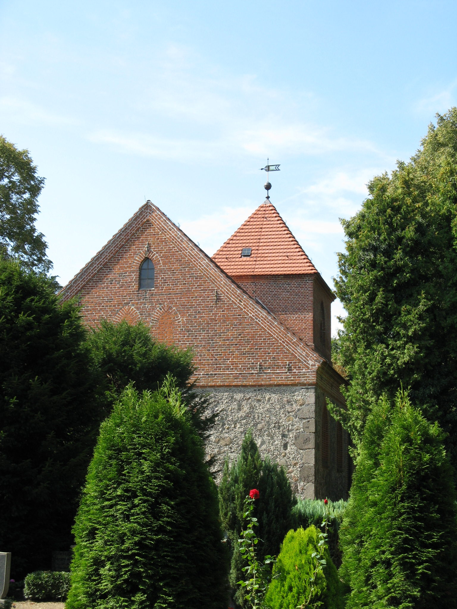 Church in Kirch Poppentin, disctrict Mecklenburgische Seenplatte, Mecklenburg-Vorpommern, Germany